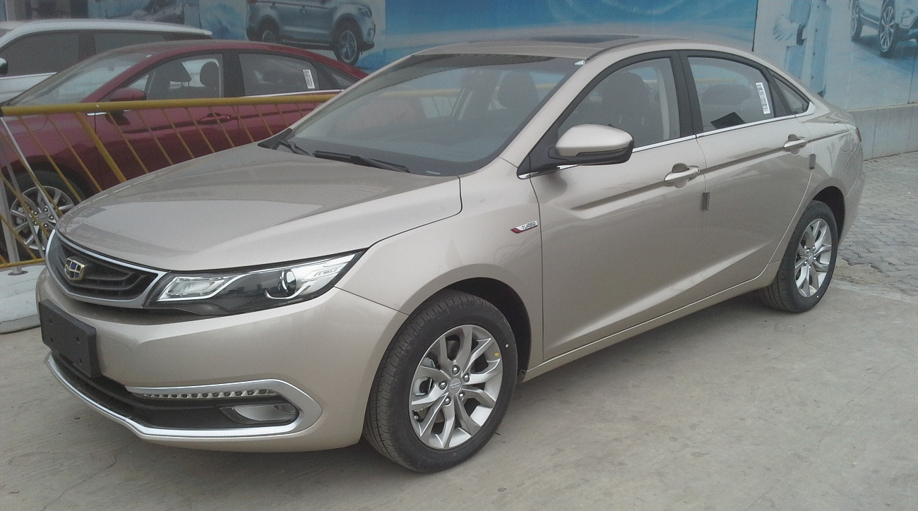 Geely Emgrand GL photographed in Yinchuan, Ningxia province, China.